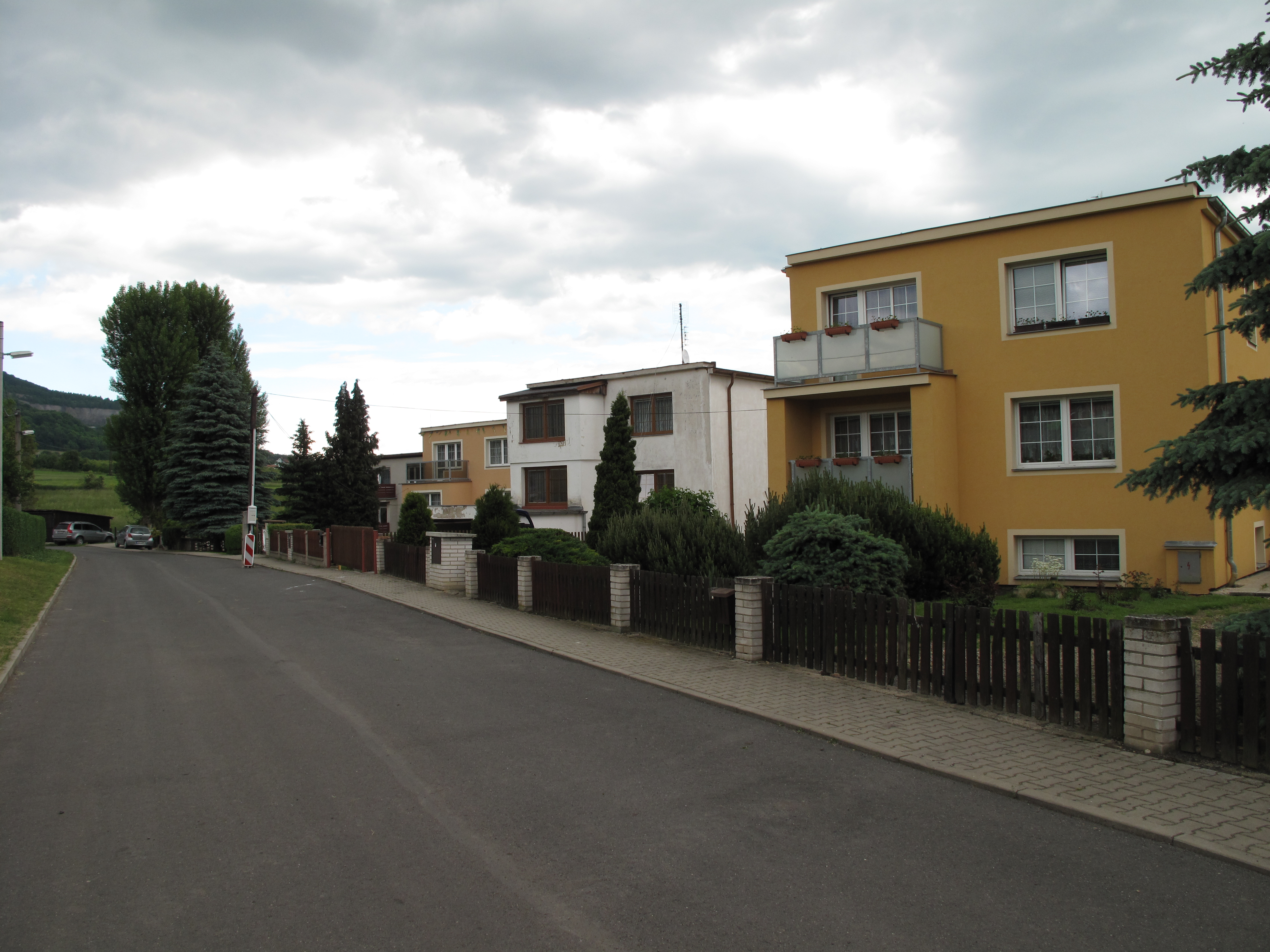 Houses in Chotiměř, Litoměřice District, Czech Republicc.